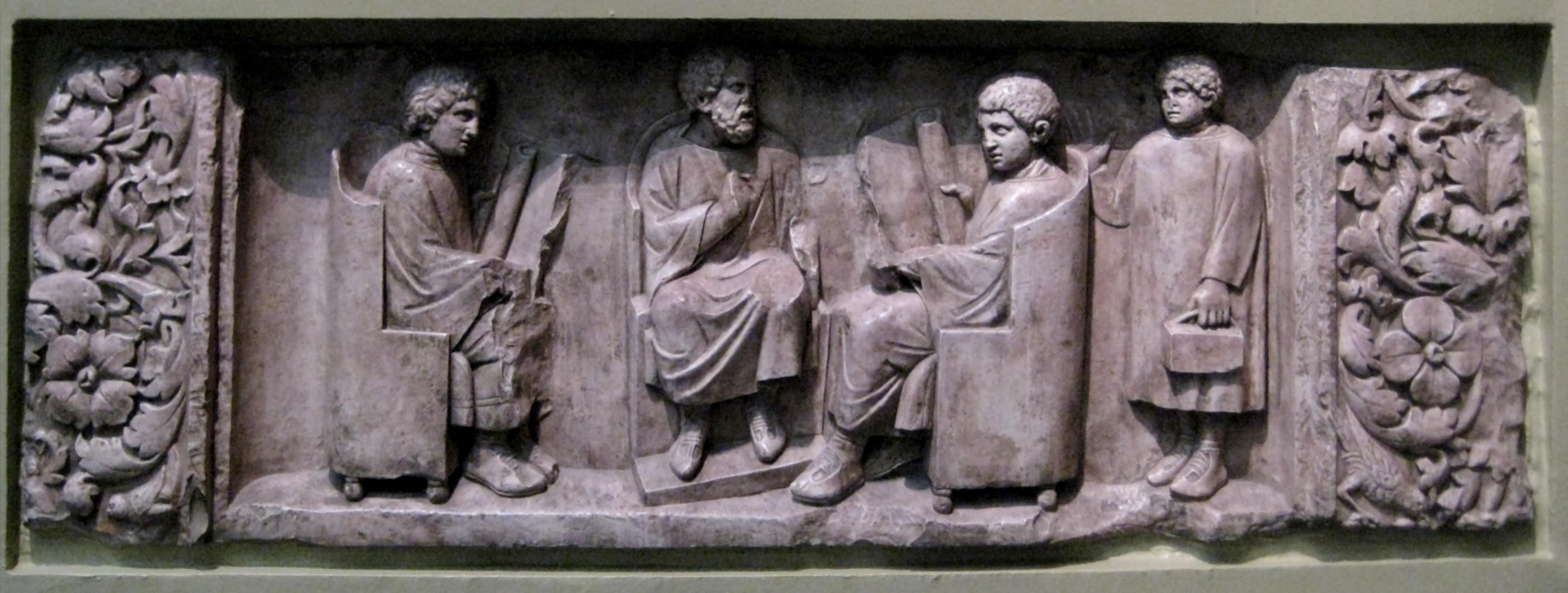 Relief found in Neumagen near Trier, a teacher with three discipuli. Around 180–185 CE. Photo of casting in Pushkin museum, Moscow.